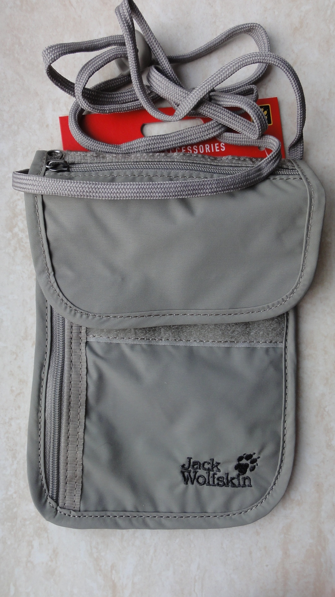 Neck pouch (Jack Wolfskin)